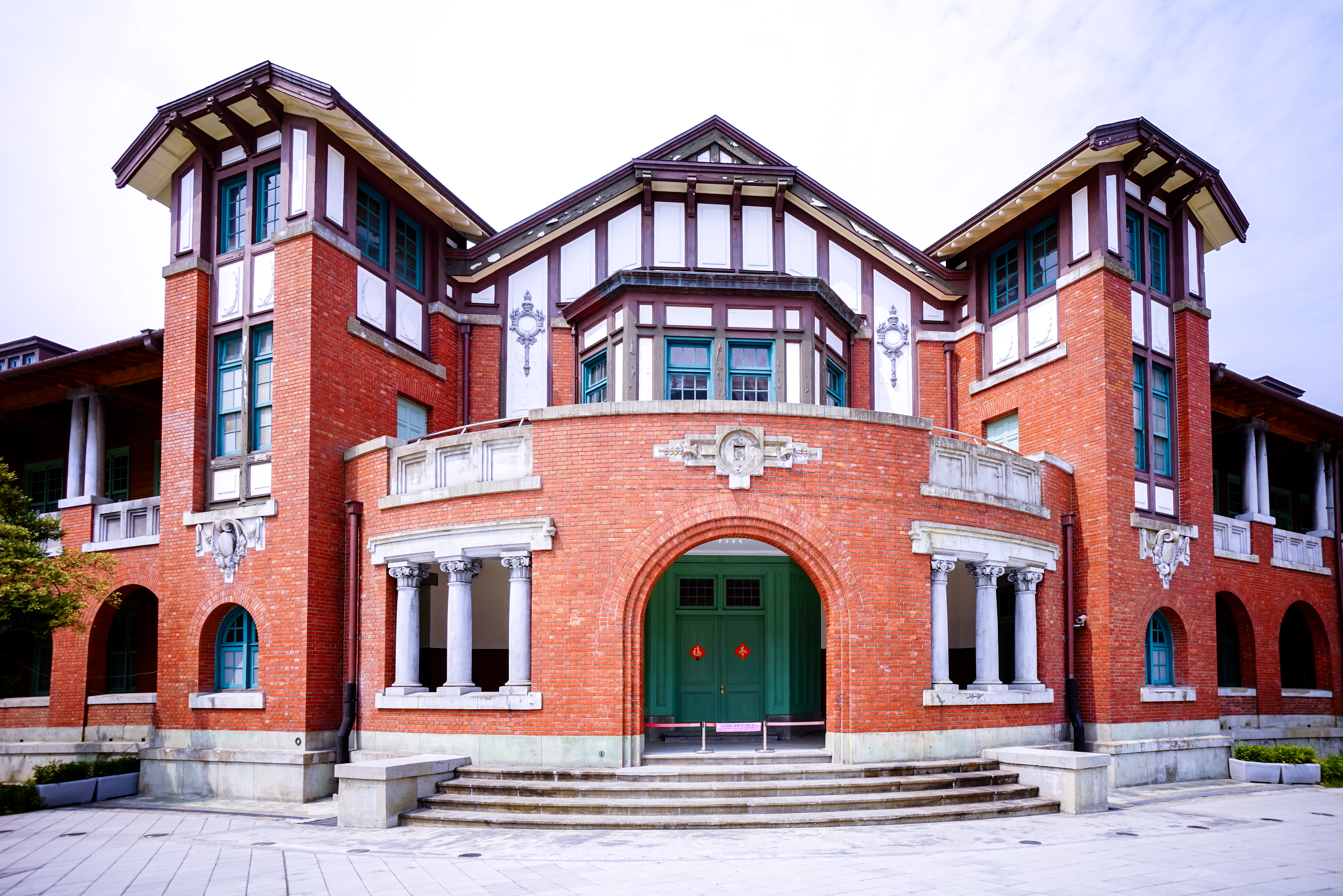 The Railway Department of the Traffic Bureau of the General Governor of Taiwan